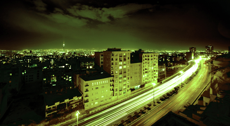 Millad tower in the backend...